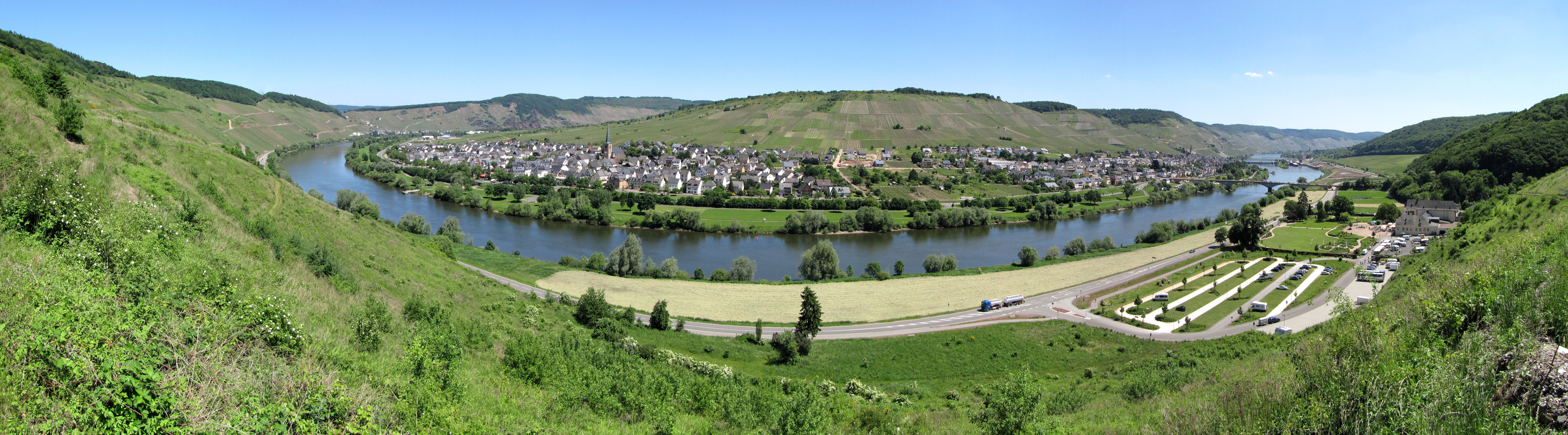 Panorama of Zeltingen-Rachtig